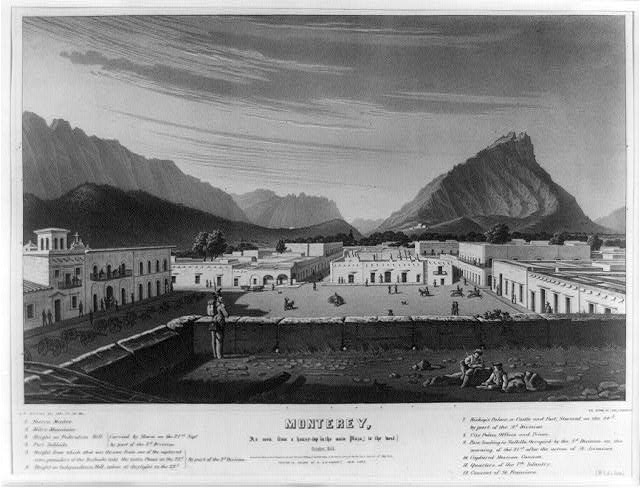 Monterey,Mexico as seen from a house-top in the main Plaza (Zaragoza Public Square), [to the west.] October, 1846.